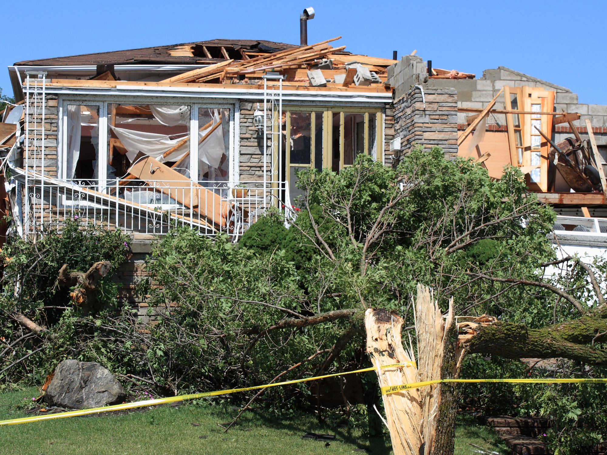 A house located at 34 Houston Rd in Vaughan with significant roof and internal damage after being struck by a powerful F2 tornado. This home along with many others was deemed uninhabitable and was required to be partially torn down by the City of Vaughan a short time later.